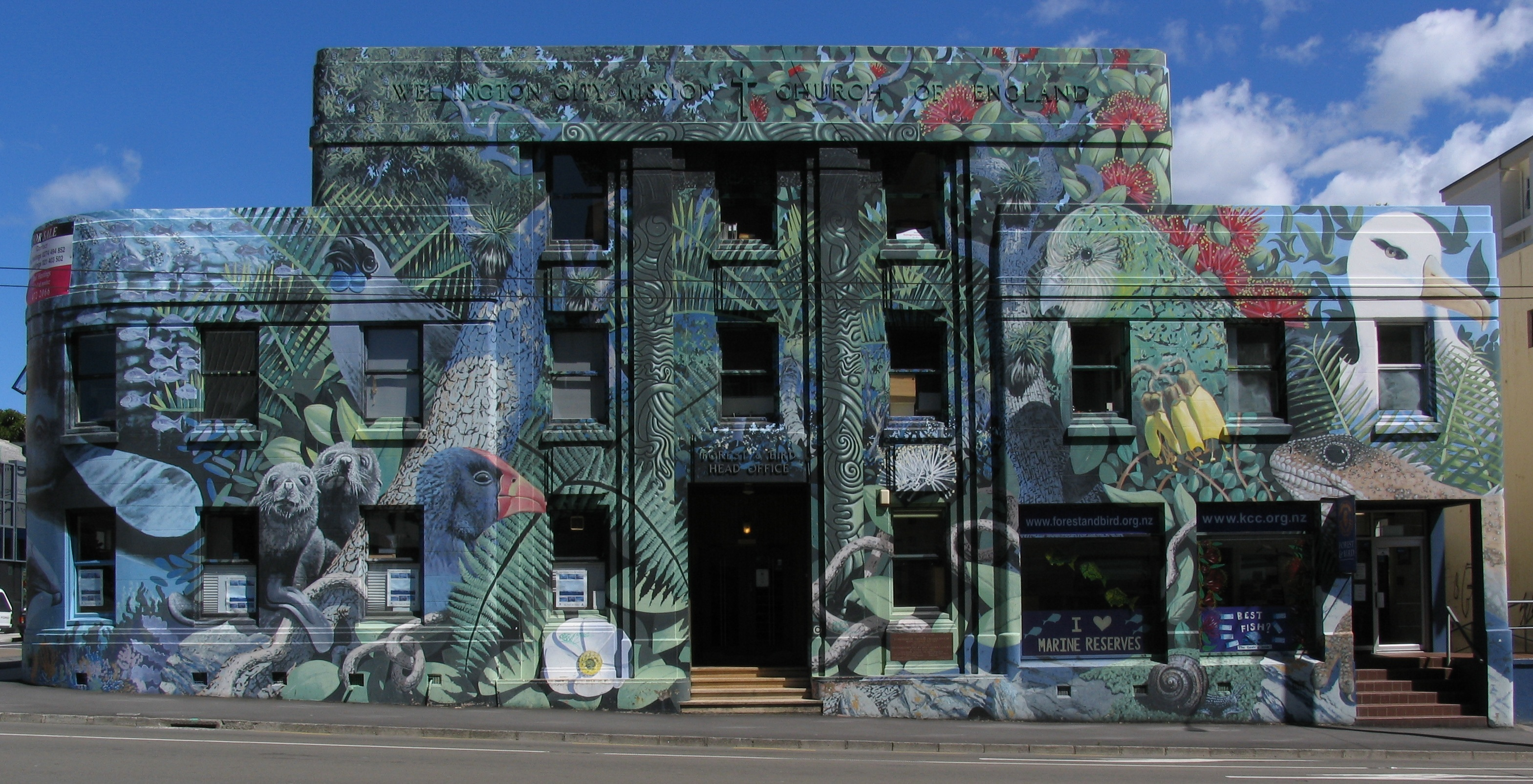 Forest & Bird headquarters, Taranaki Street, Wellington, New Zealand